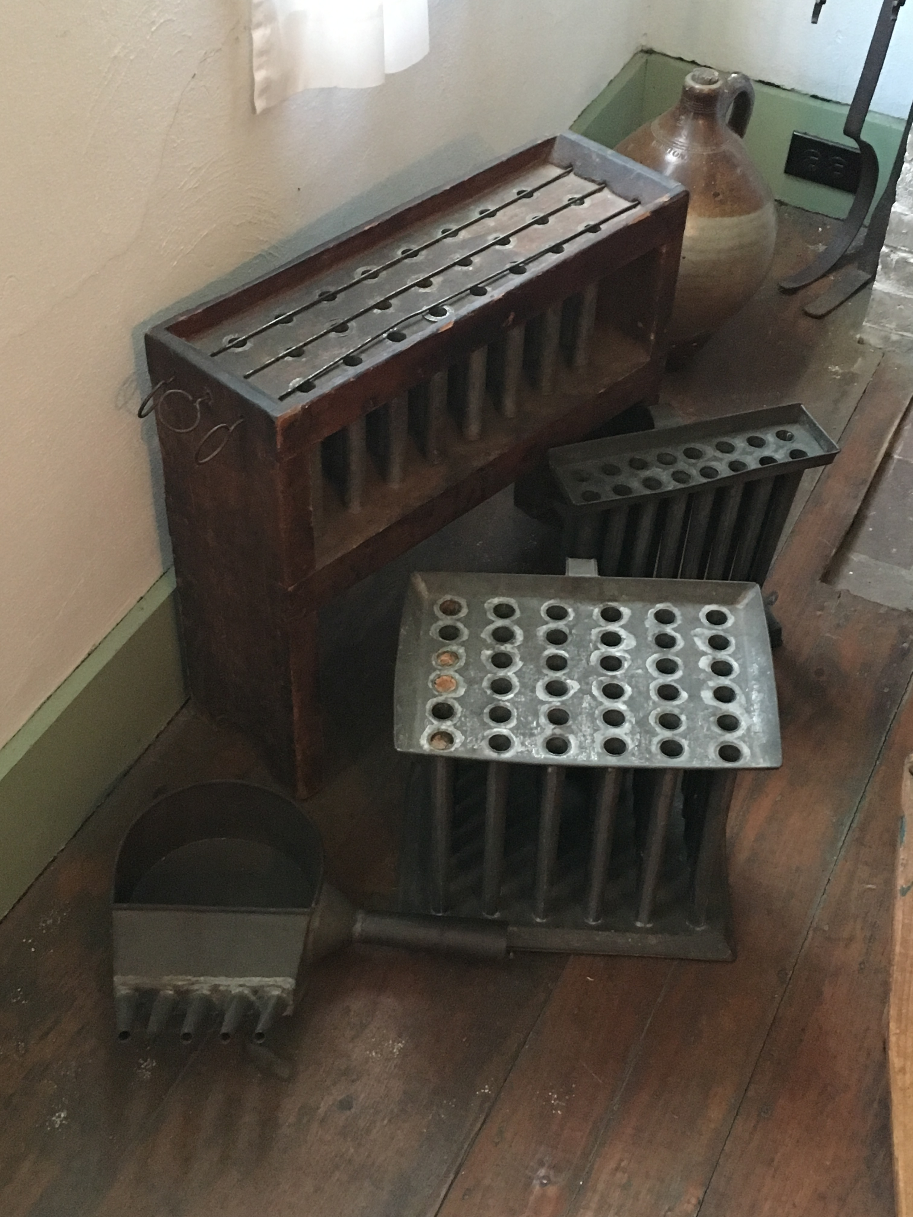 colonial candle molds at fruitlands